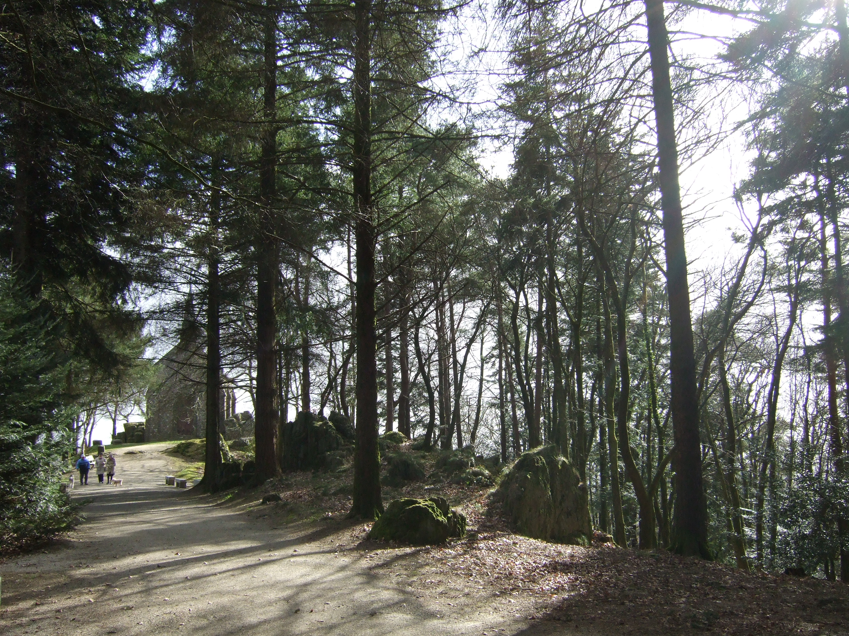 Mortain, Normandy - hill 314, "la petite chapelle".